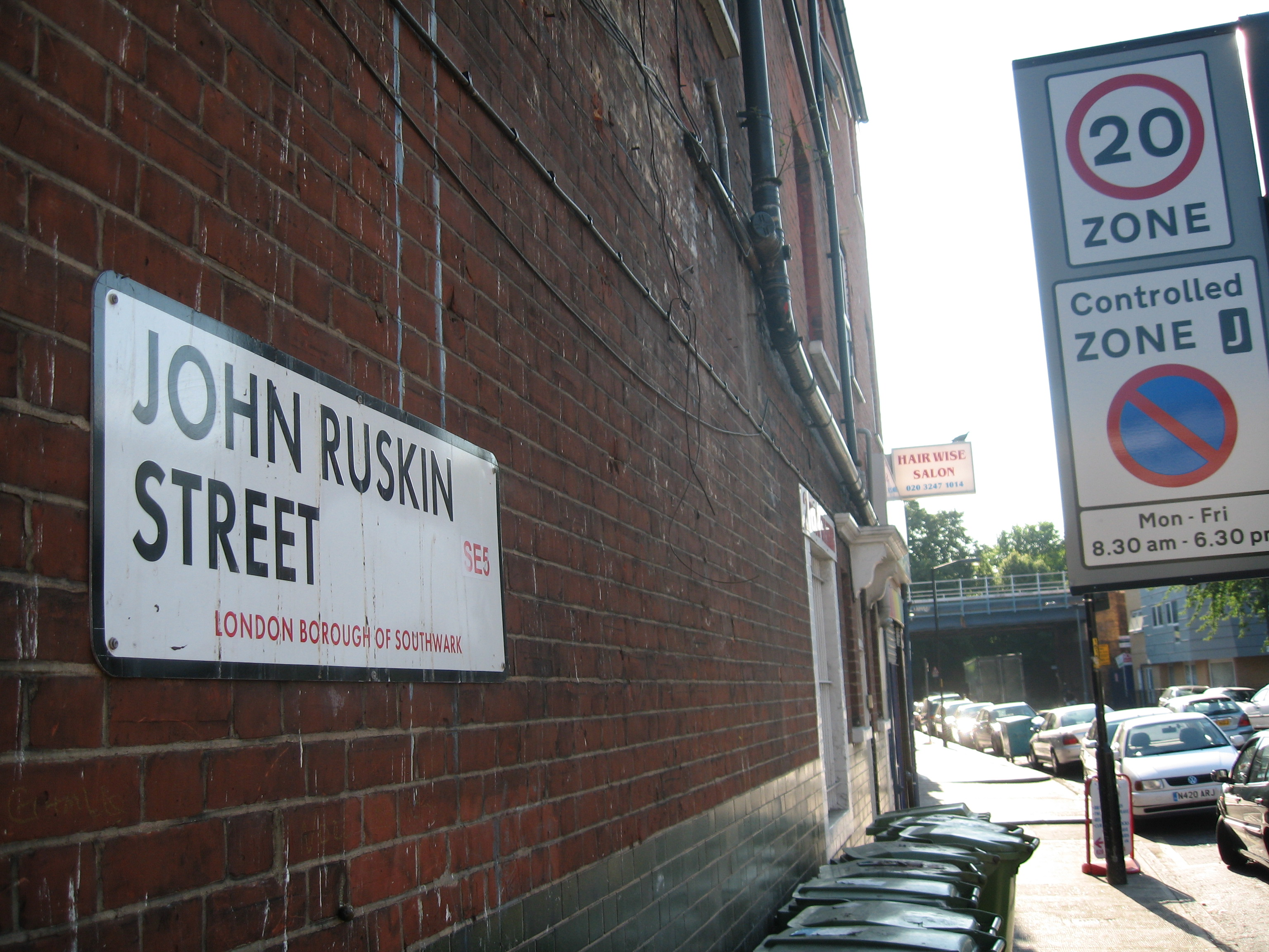 John Ruskin Street (formerly Beresford Street) at its intersection with Camberwell Road in Walworth, London.